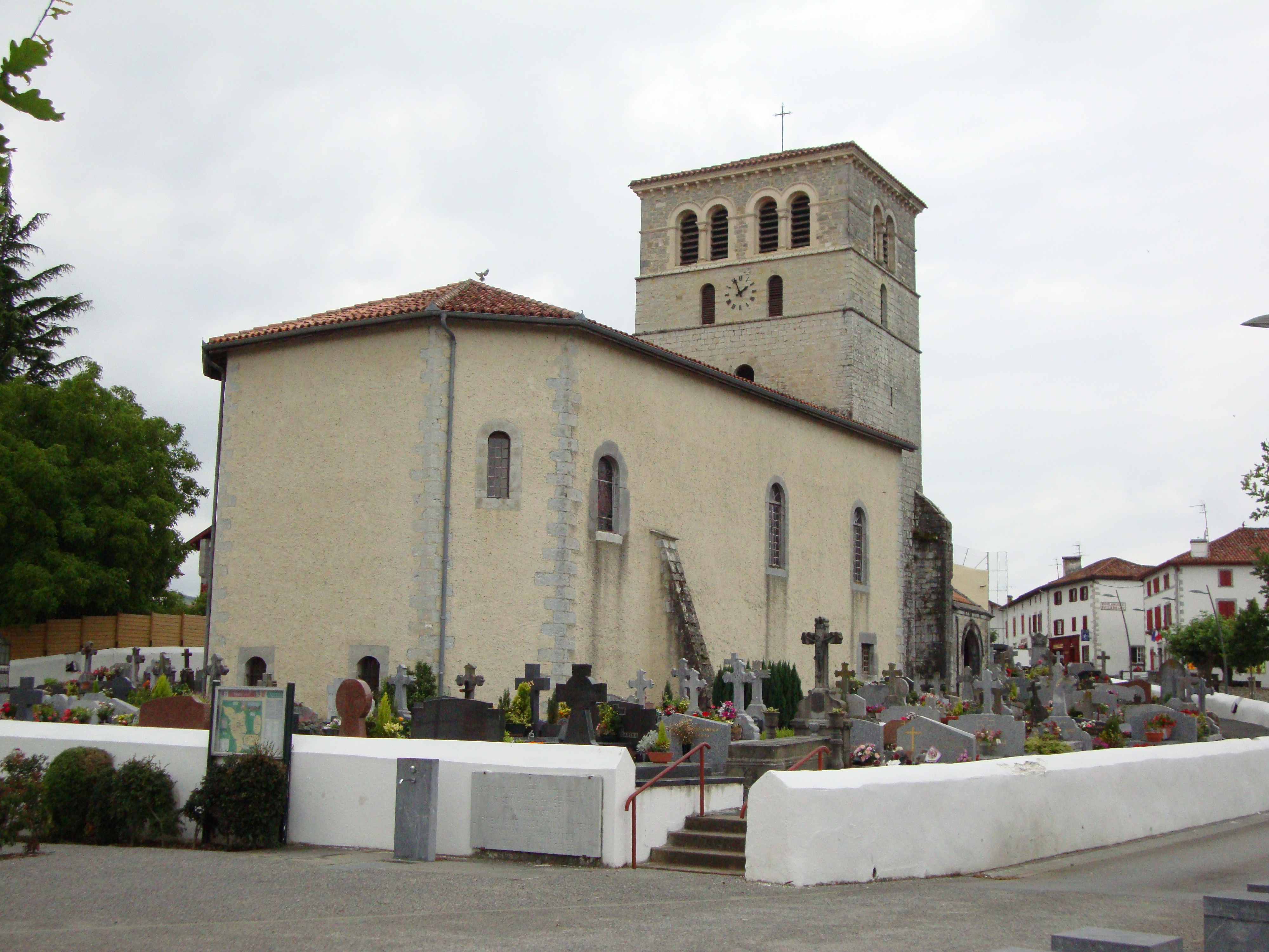 Irissarry_(Pyr-Atl,_Fr) Church Saint-Jean-Baptiste and the churchyard. Some of the gravestones are discoidal "basque" steles